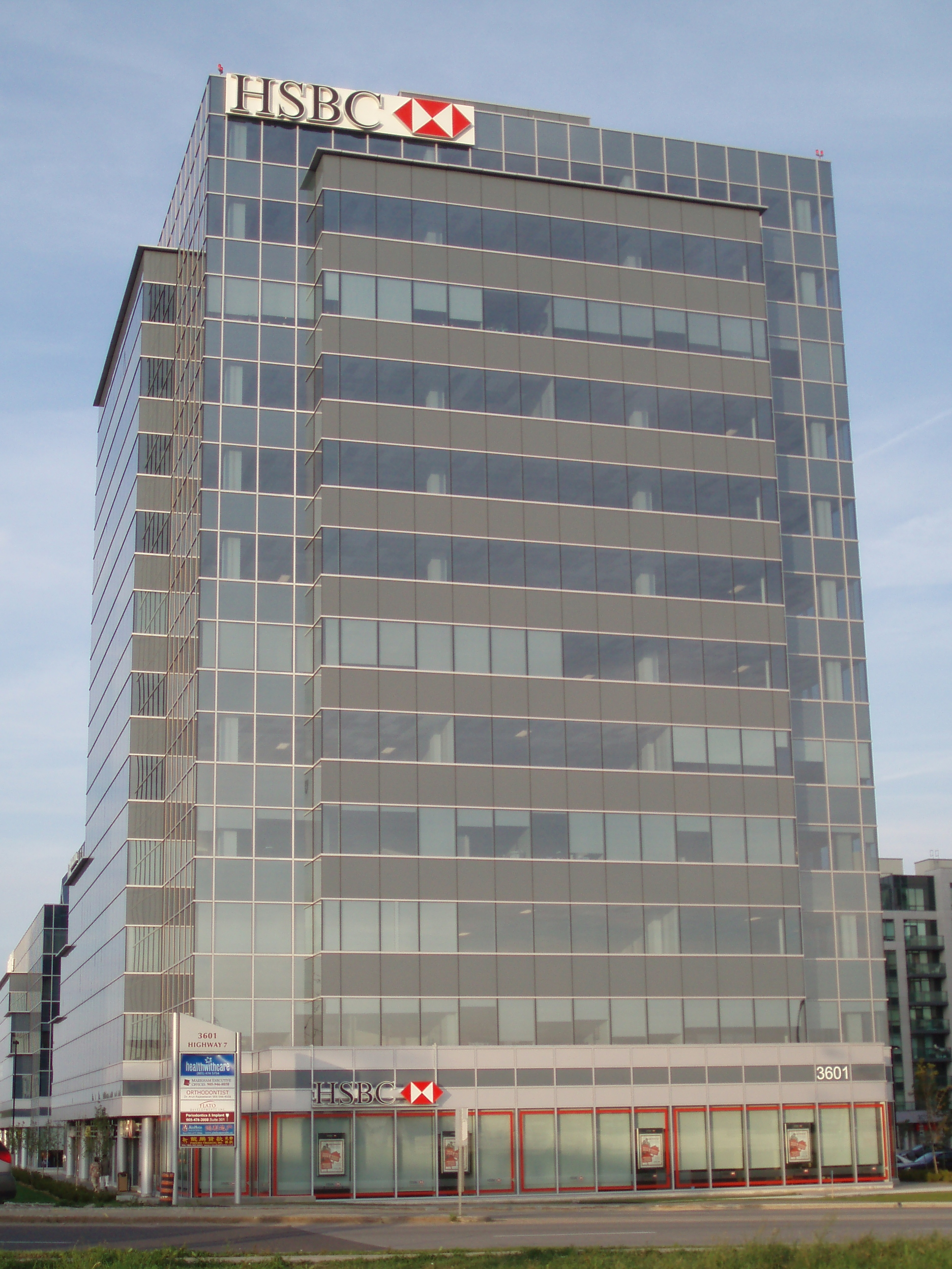 HSBC Building, Markham Liberty Square, Markham